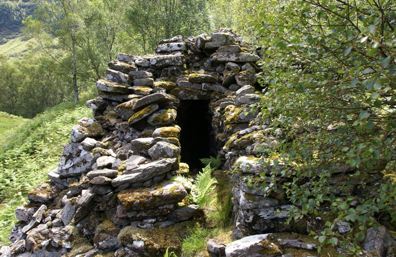 Dun Grugaig, Lochalsh, Highland, Scotland - gallery in the south wall